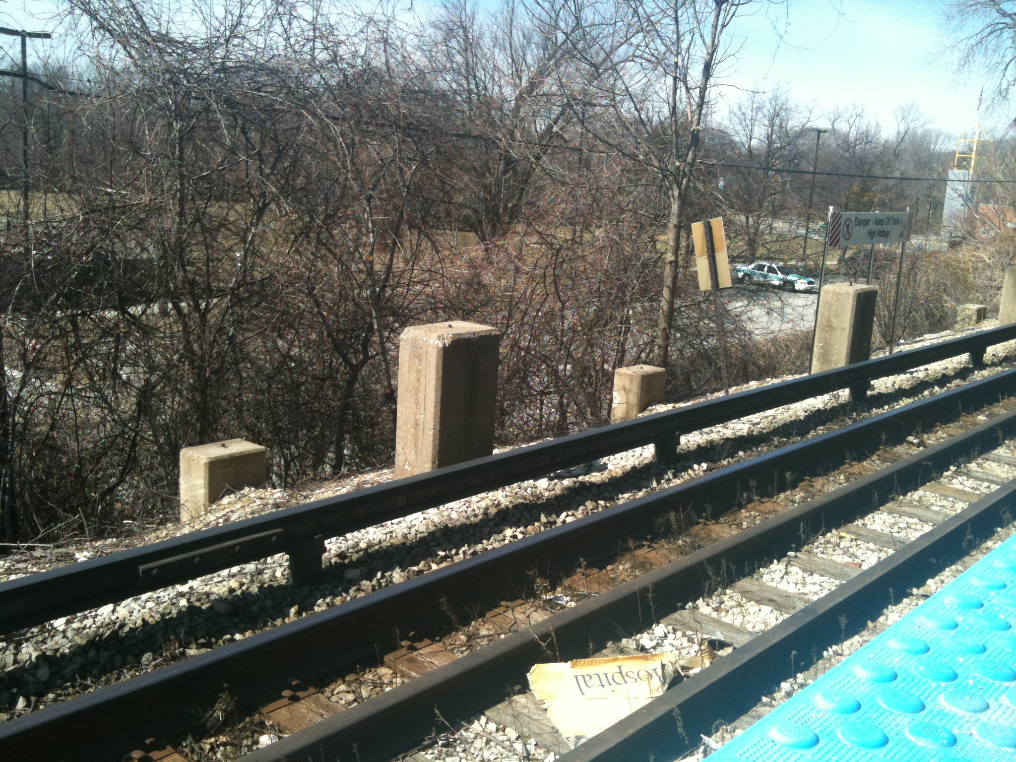 Remaining supports for the former Chicago North Shore & Milwaukee Railroad platform at Central in Evanston, Illinois.